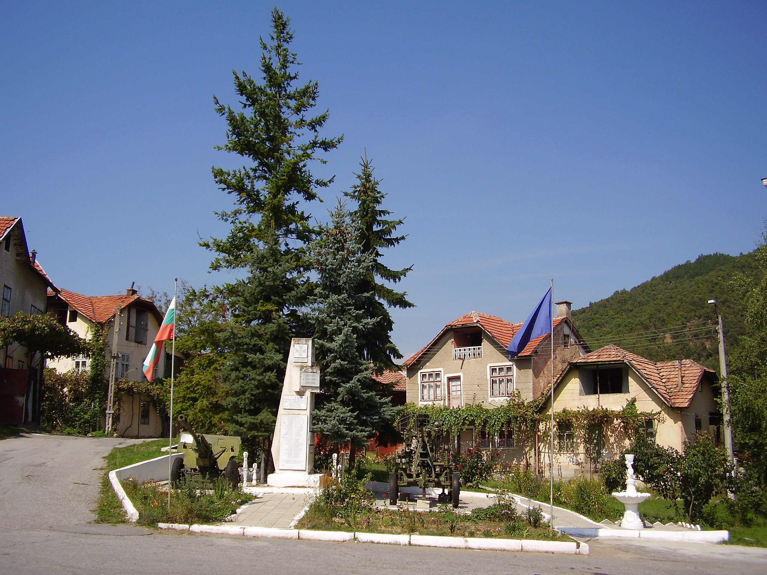 Goranovtsi, Kyustendil District